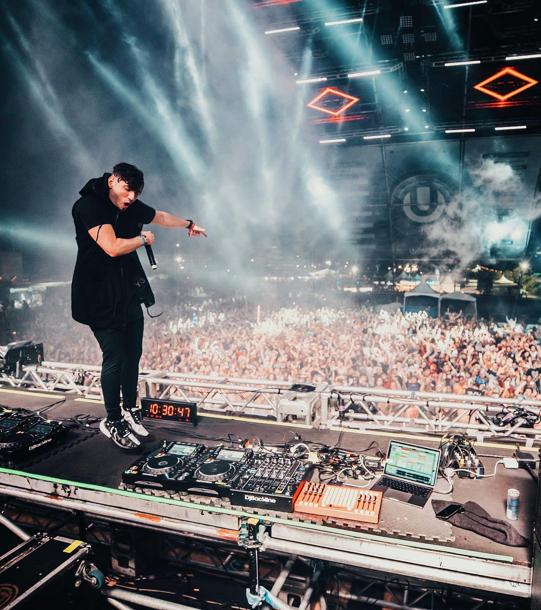 Ultra Music Festival - Miami, FL - March 30th, 2019